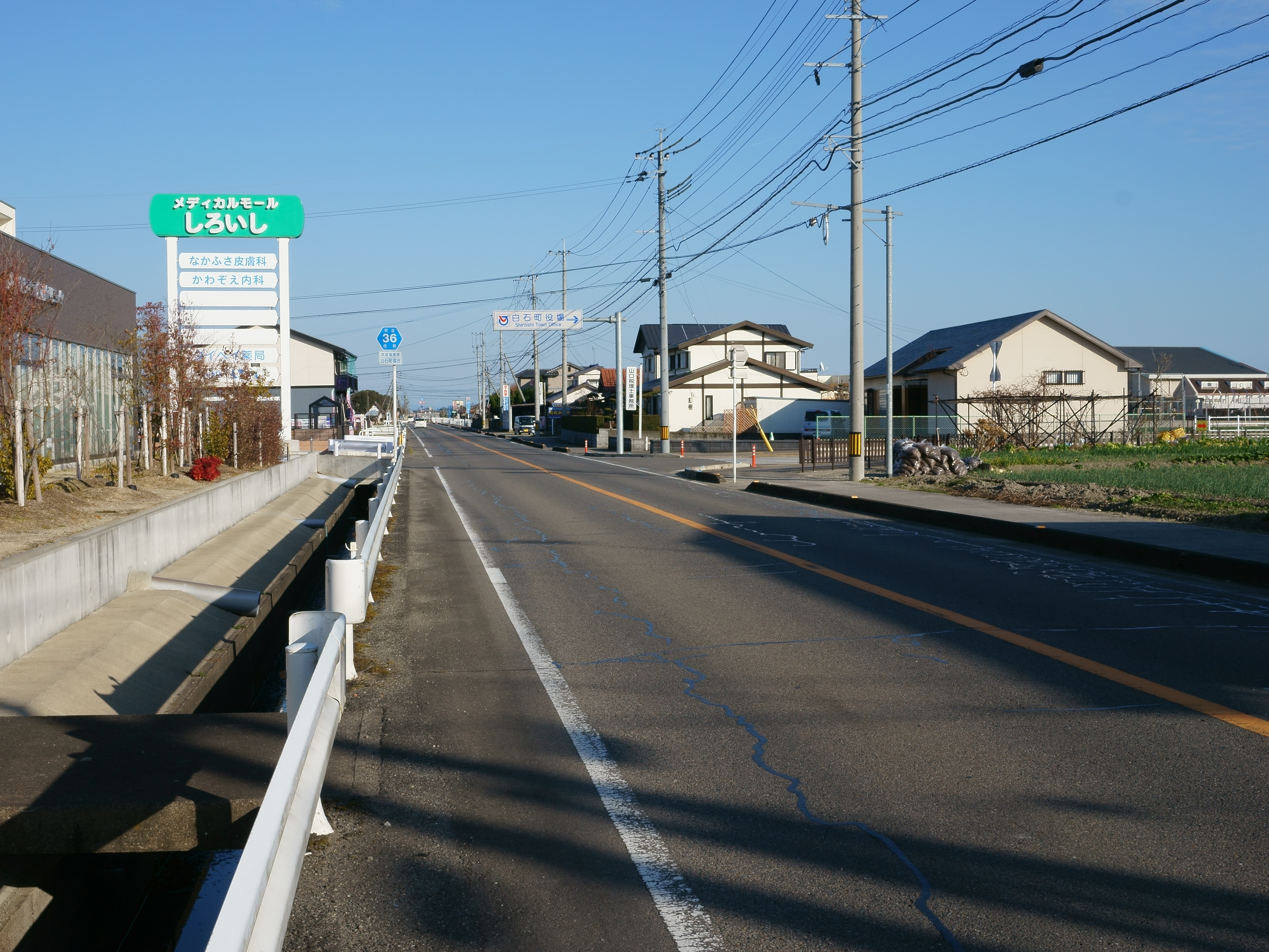 Saga prefectural road No.36 in Shiroishi town.